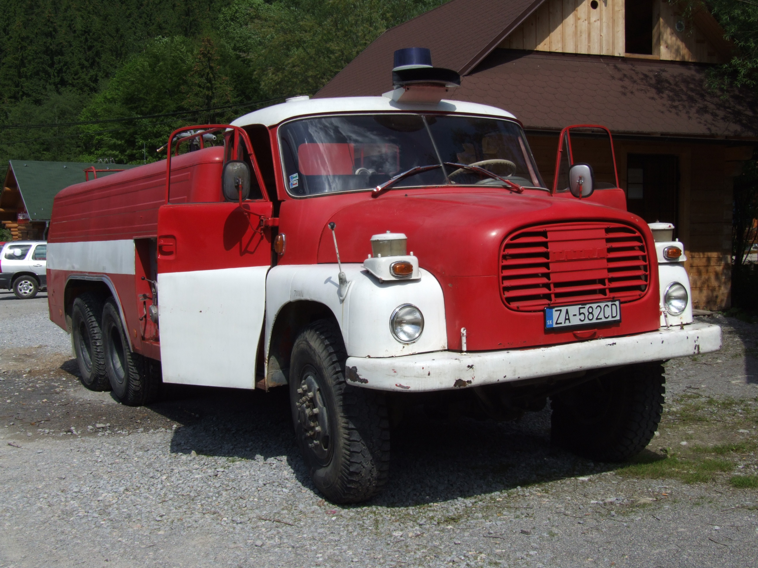 Tatra T148 (firefighting car), Slovakia